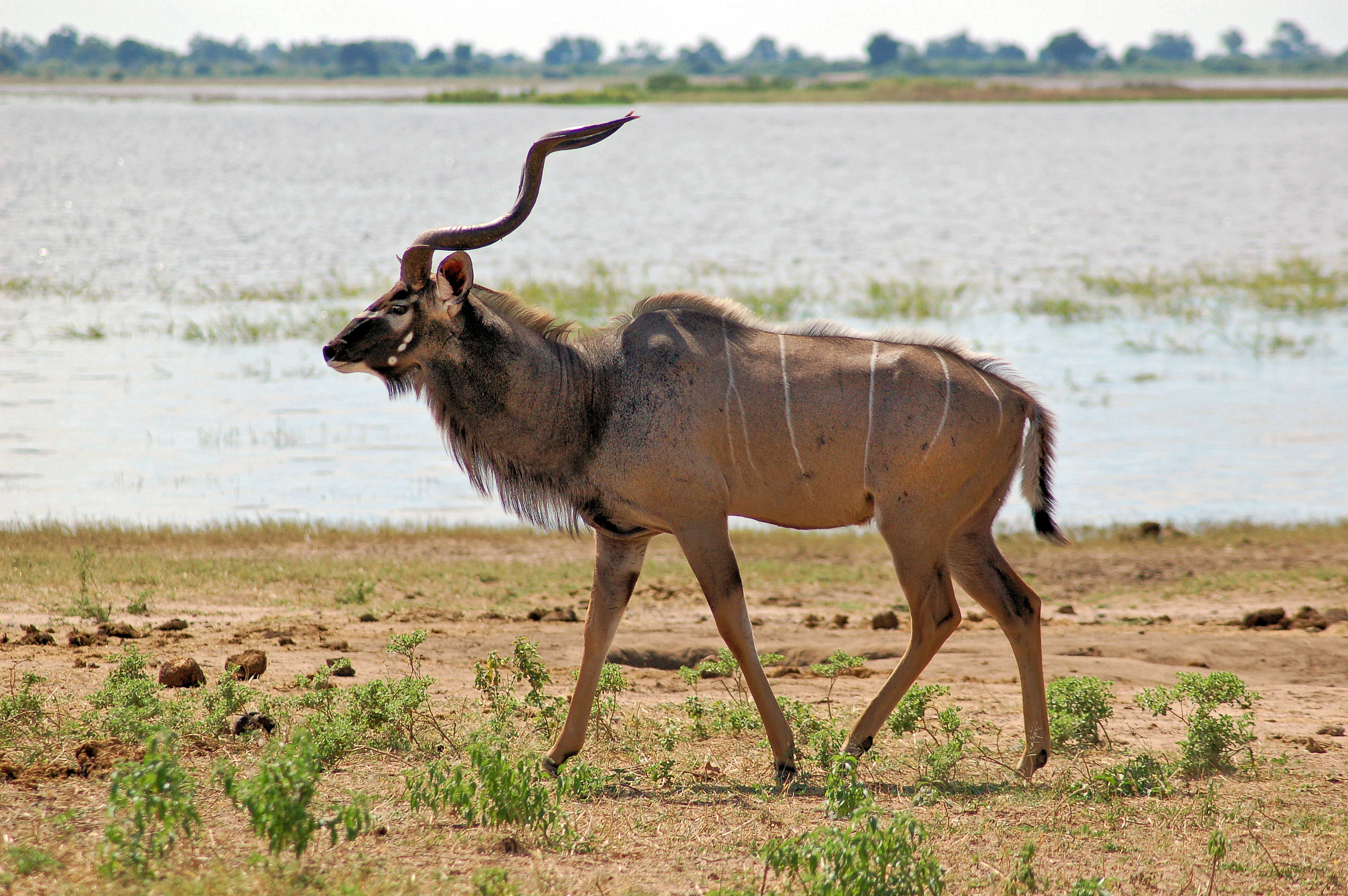 An adult male Greater Kudu near Chobe River front, Botswana.